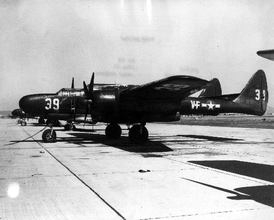 Northrop F2T-1N Black Widow.